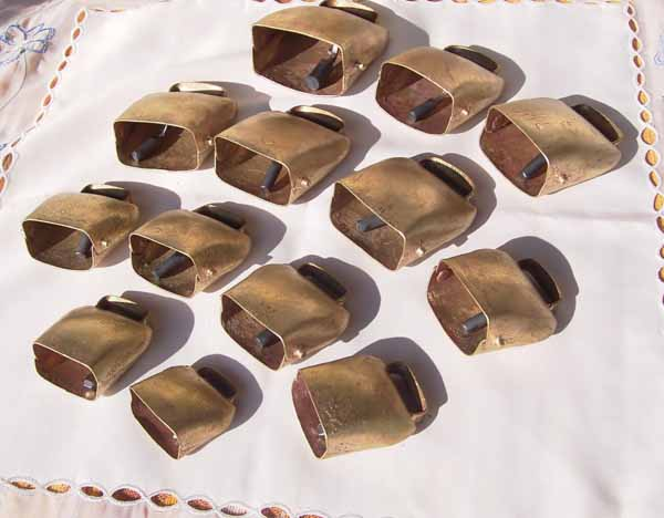 Alpine bells in the middle octave of c-c